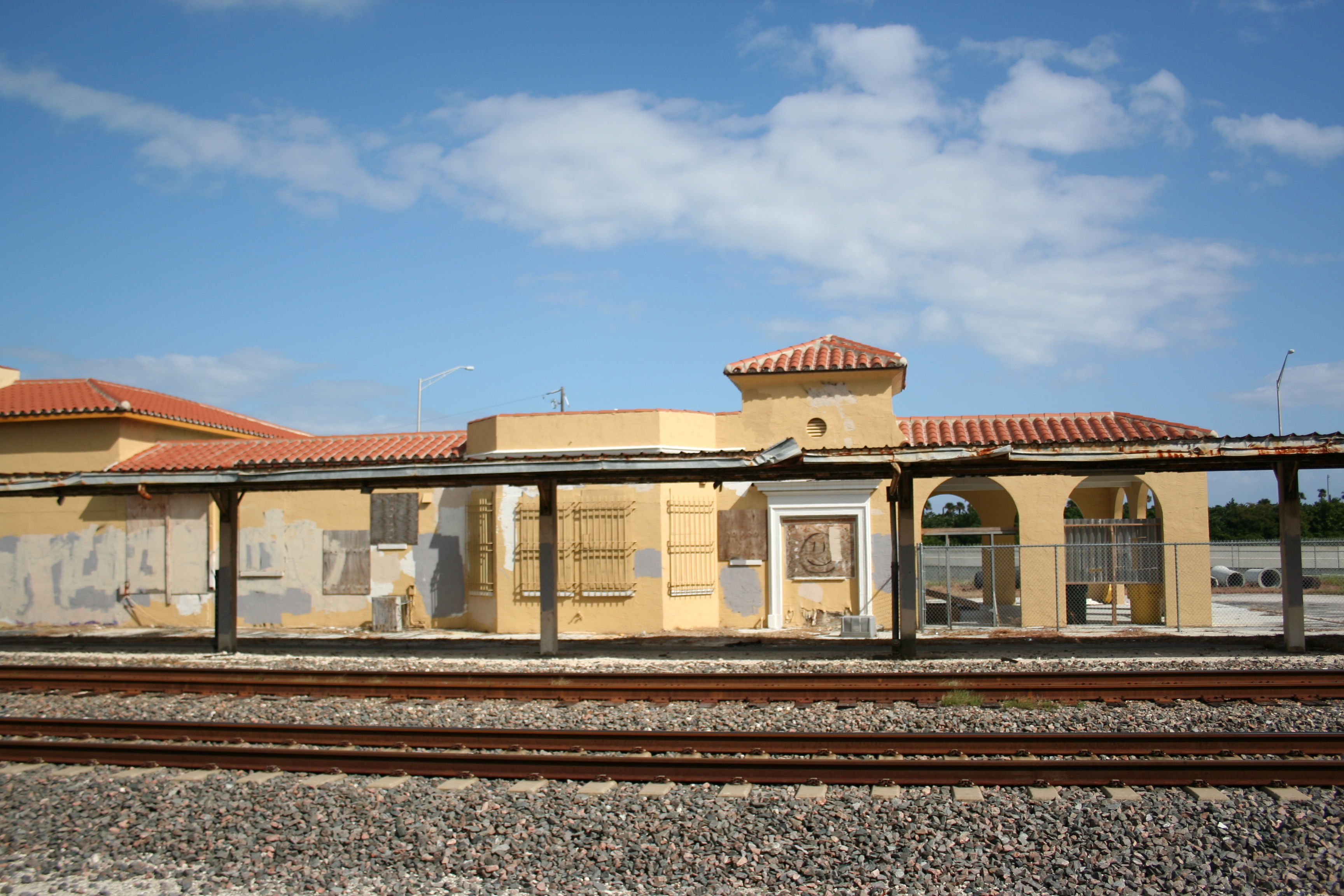 Western view of Delray Beach Seaboard Air Line Railway Station